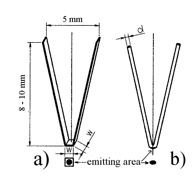 Cathodes